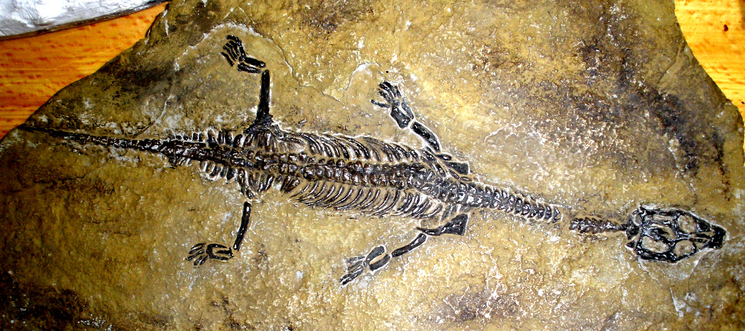 Fossil of Lariosaurus valceresii, an extinct reptile Took the photo at Museo di Storia Naturale, Milano